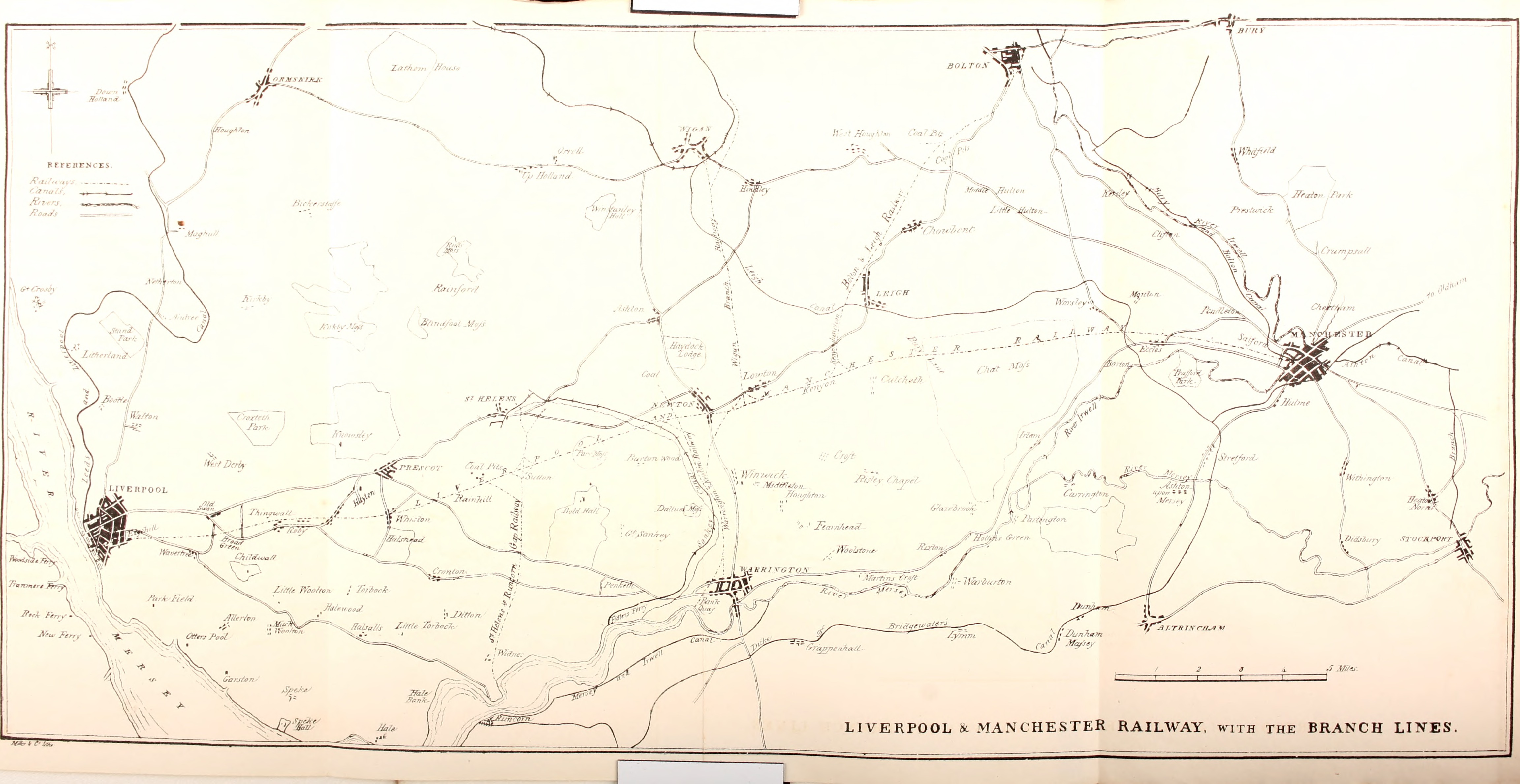 Title: An account of the Liverpool and Manchester Railway : comprising a history of the parliamentary proceedings preparatory to the passing of the act, a description of the railway in an excursion from Liverpool to Manchester, and a popular illustration of the mechanical principles applicable to railways, also an abstract of the expenditure from the commencement of the undertaking with observations on the same Year: 1830 (1830s) Authors: Booth, Henry, 1788-1869 Theremin, M Dibner, Bern C.E. Rappaport (Firm) DSI Subjects: Liverpool and Manchester Railway Railroads Publisher: Liverpool : Printed by Wales and Baines and sold by them ... Manchester : Bancks and Co. Edinburgh : Cadell and Co. London : Hurst, Chance and Co. Text Appearing Before Image: ' Text Appearing After Image: AN ACCOUNT, &c. CHAPTER I. INTRODUCTION—PARLIAMnXTARV PROCEEDINGS. The adoption of Railways as a means of inlandcommunication, for the transit of merchandise andpassengers, forms an era no less remarkable than thefirst introduction of Canals, and constitutes a changein the long-established modes of conveyance no lessstriking and important. The Railway, however, is byno means a recent invention: nearly two centurieshave elapsed since the first partial introduction ofTram-roads, rudely constructed of wood, at a triflingoutlay of capital and still smaller expenditure ofscientific arrangement. The substitution of iron forwood was a great improvement; but the form of therail continued for a long time very objectionable, con- B sisting of flat pieces of cast-iron laid on the ground,with a side flange rising two or three inches to confinethe wheel to its proper track. The rails thus restingon the ground, were unavoidably covered with soil orsand ; and it was not till the adoption of th